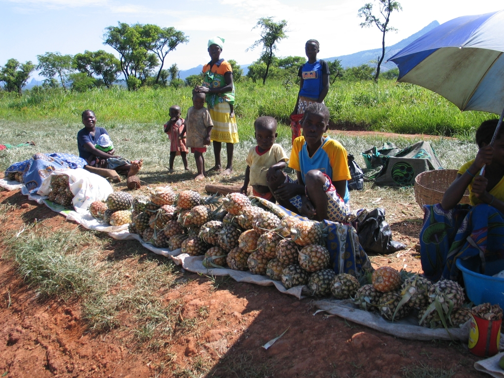 Pineapple vendors along the road from Huambo to Quibala in Angola